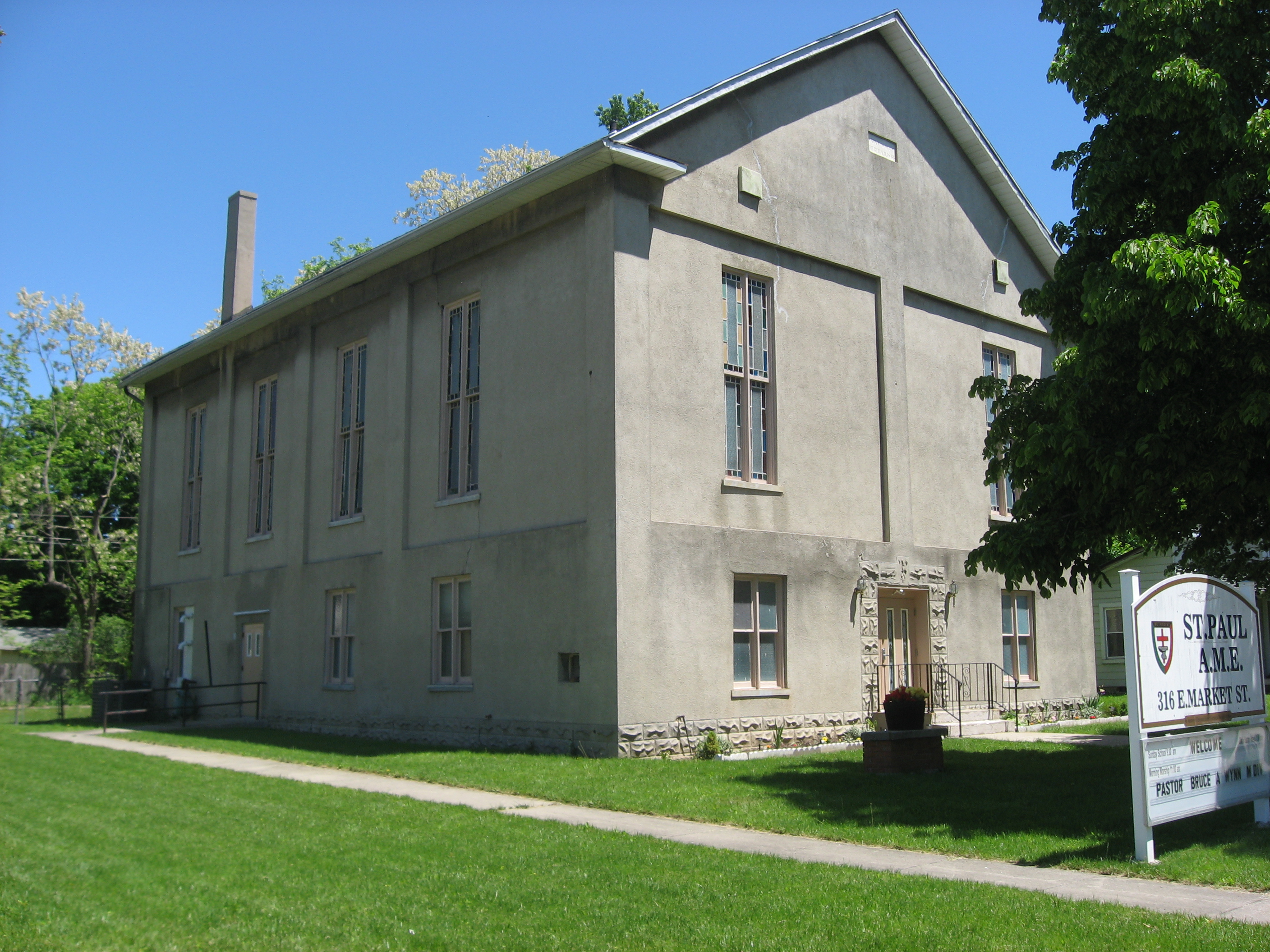 Front of St. Paul AME Church, located at 316 E. Market Street in Urbana, Ohio, United States. Built in 1876, it is listed on the National Register of Historic Places.